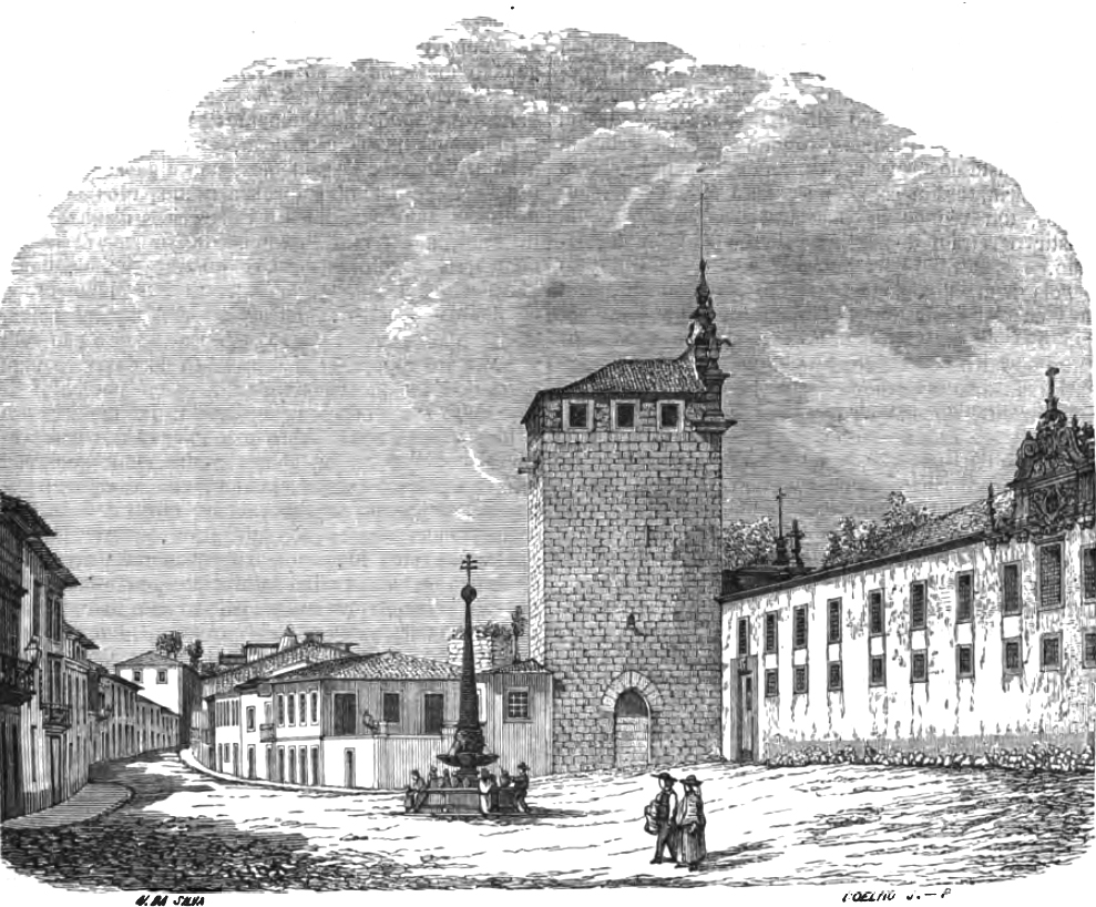 Campo de St Tiago in Braga, Portugal